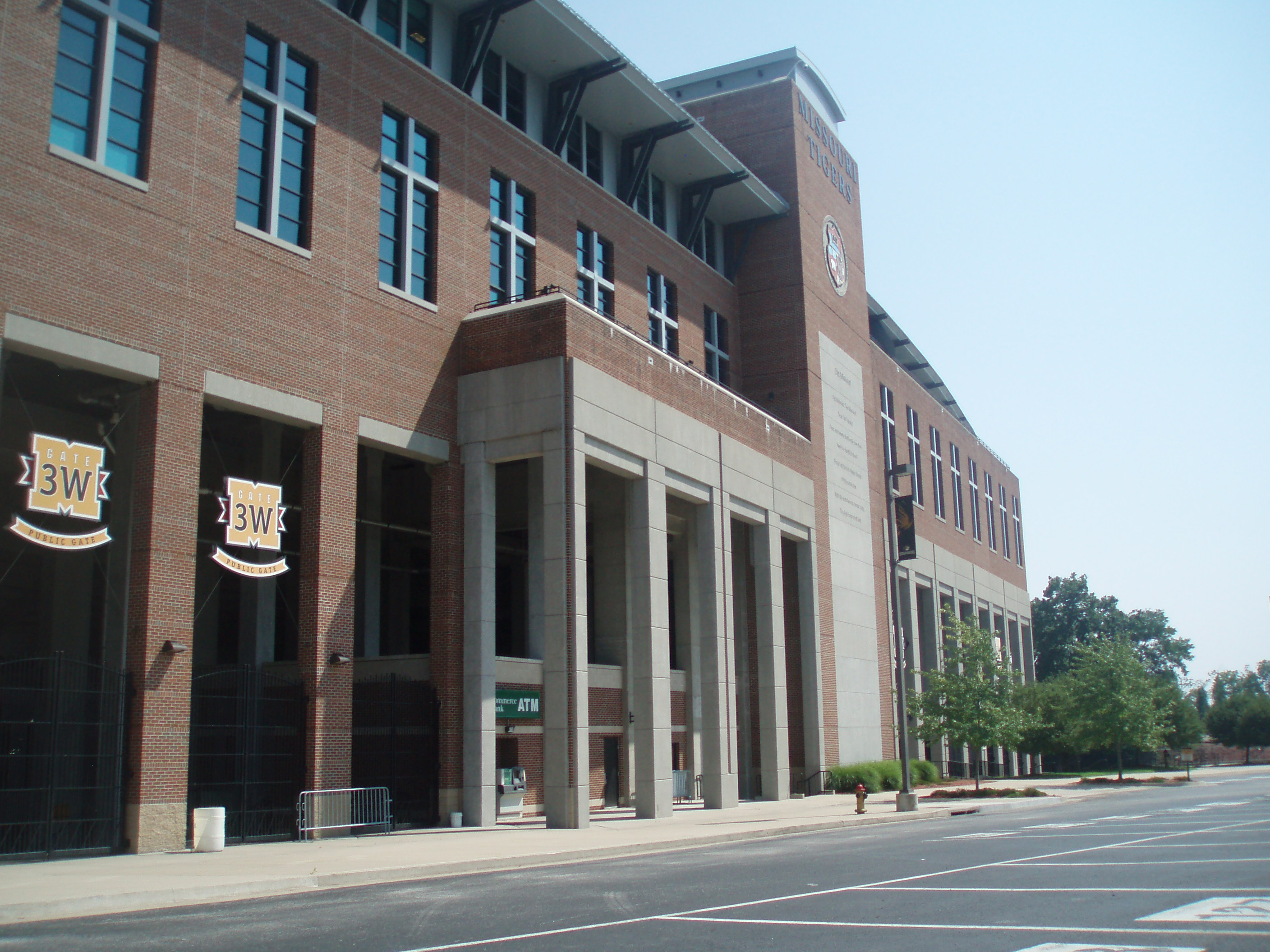 West side of Faurot Field